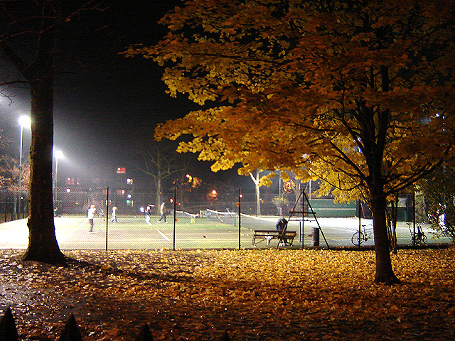 Tennis courts, Highbury Fields, Islington, London. 9 December 2005. Photographer: Fin Fahey.